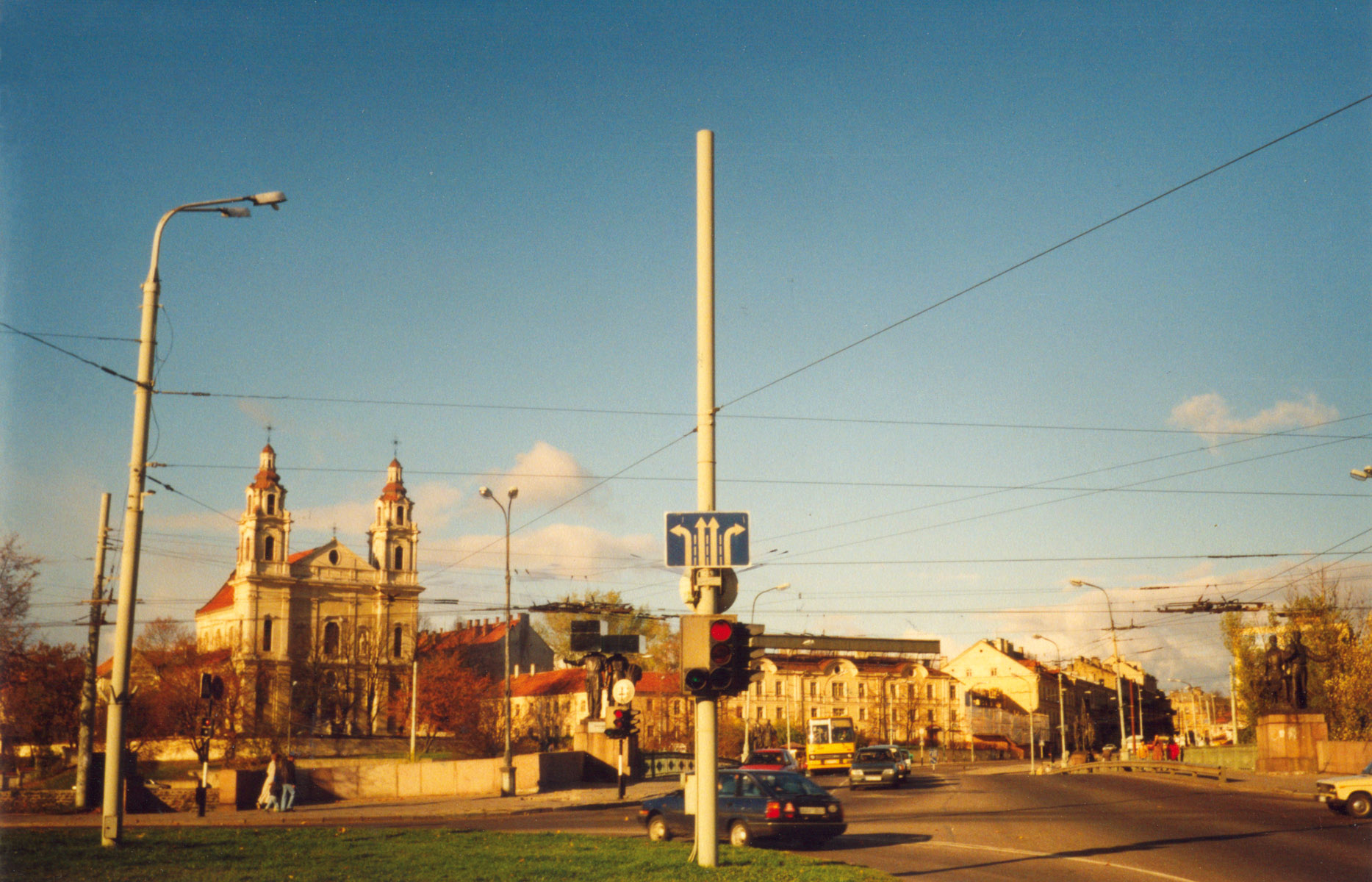 Green Bridge of Vilnius in 1996